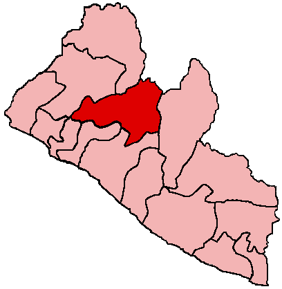 Map of Liberia showing Bong County; created with the GIMP. Made by User:Acntx.